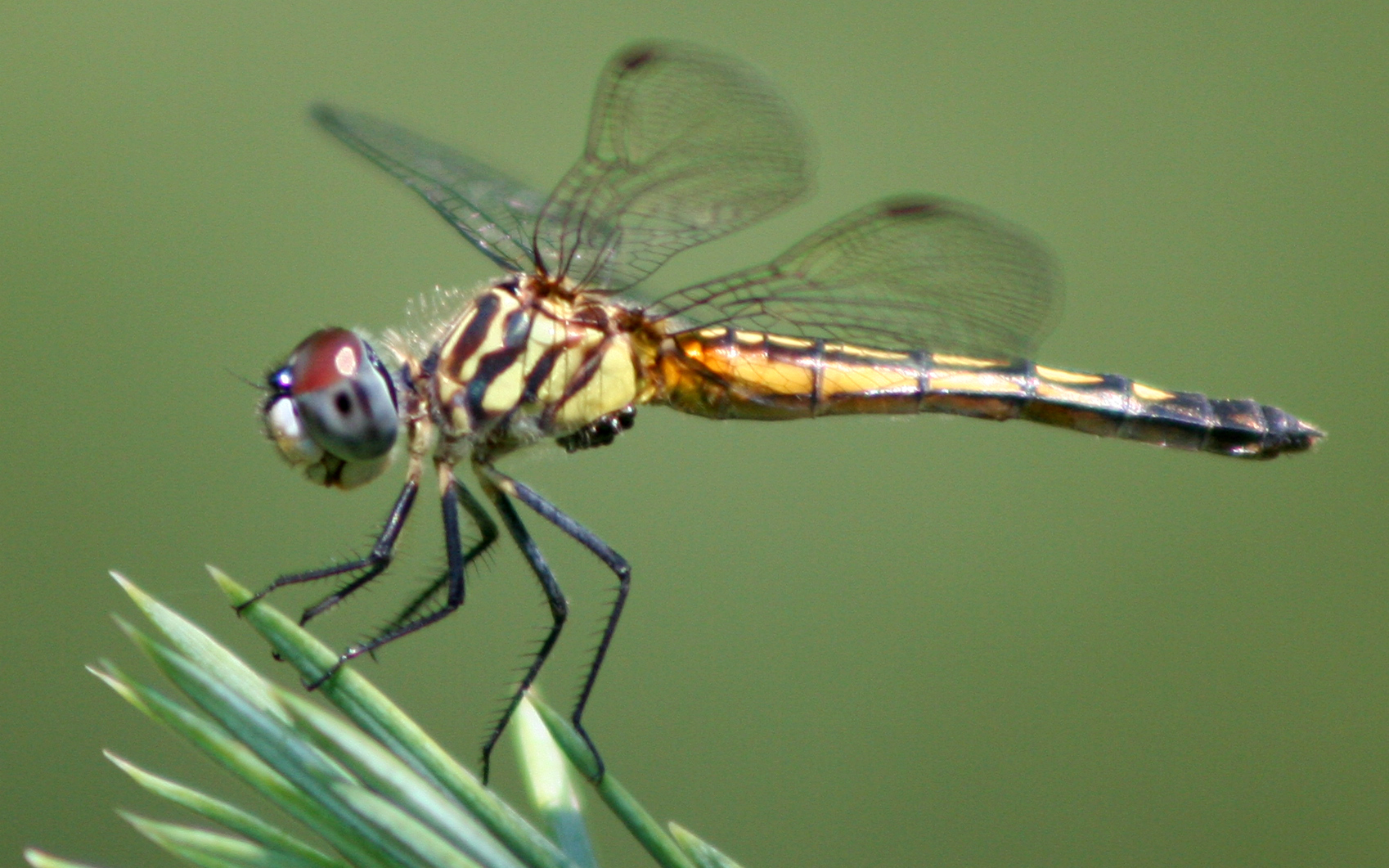 Anisoptera (Dragonfly), Pachydiplax longipennis (Blue Dasher), female, photographed in the Town of Skaneateles, Onondaga County, New York. [1]